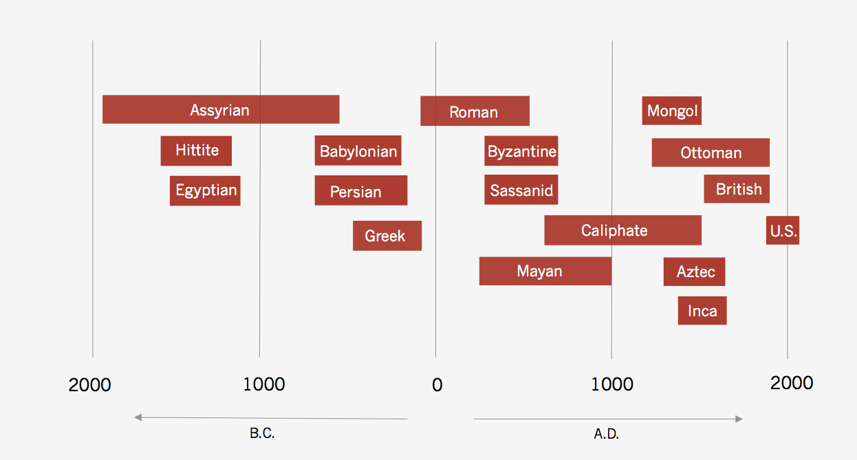 A rough estimate of the time periods of some of the largest empires in human history.